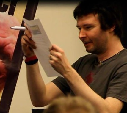 Writer/Director Pat Higgins onstage at the Horror-on-Sea festival, Jan 2013